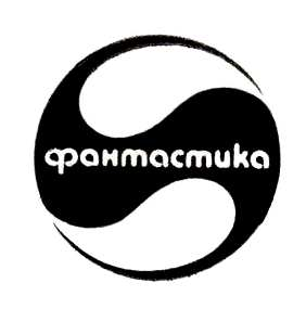 logoto na fantastika